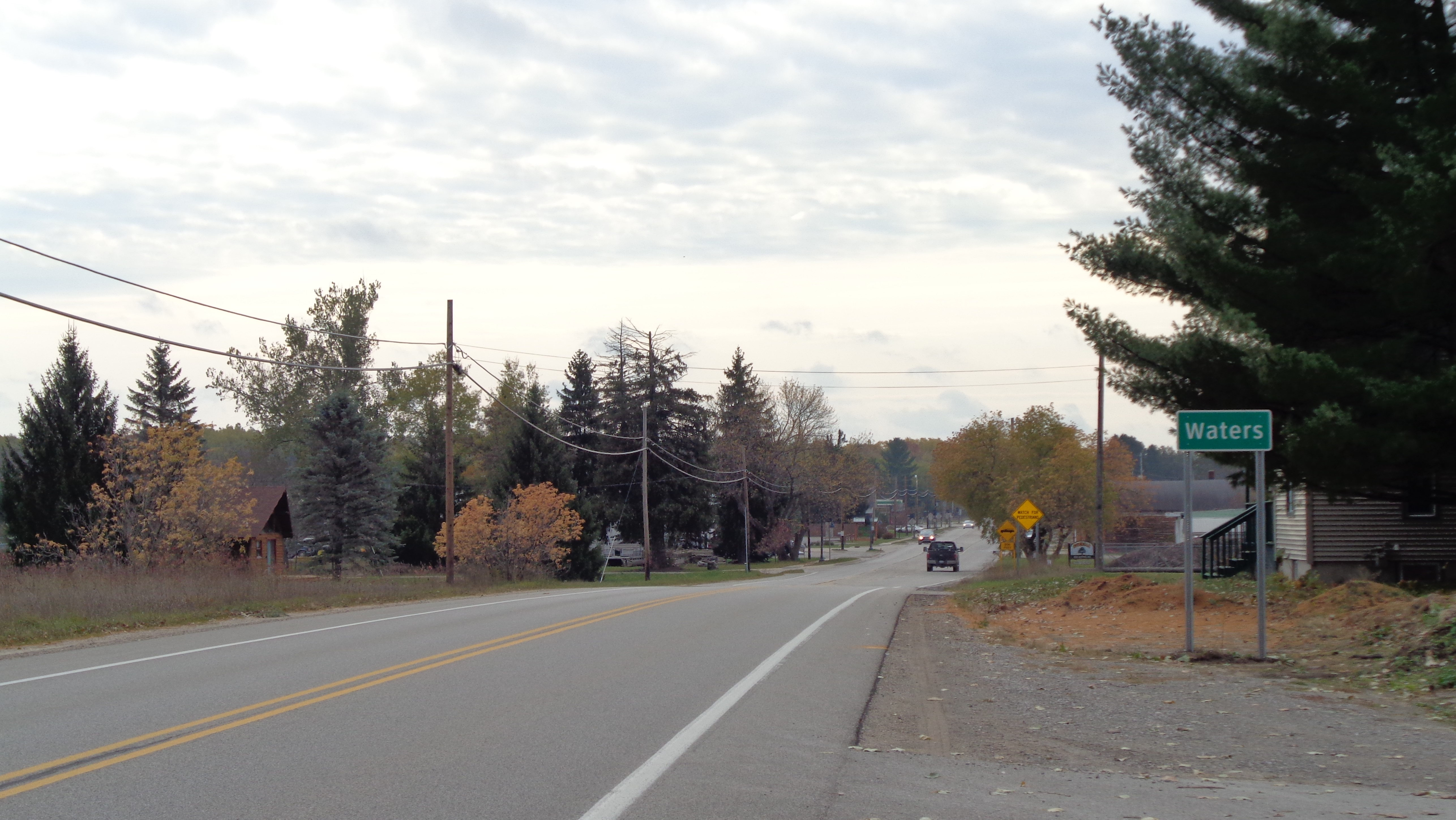 Waters, Michigan